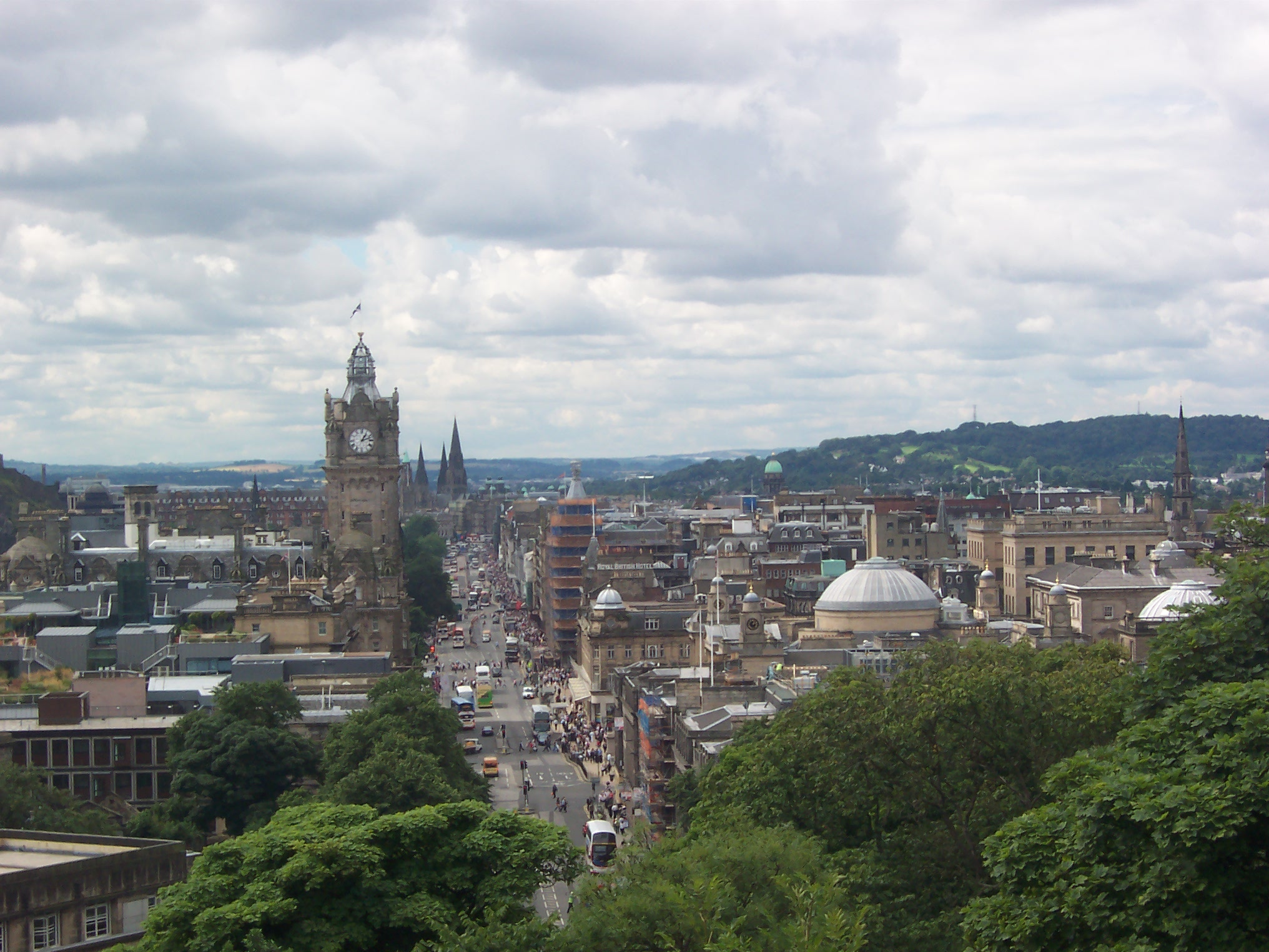 New Town, Edinburgh, looking west along Princes Street from Calton Hill.